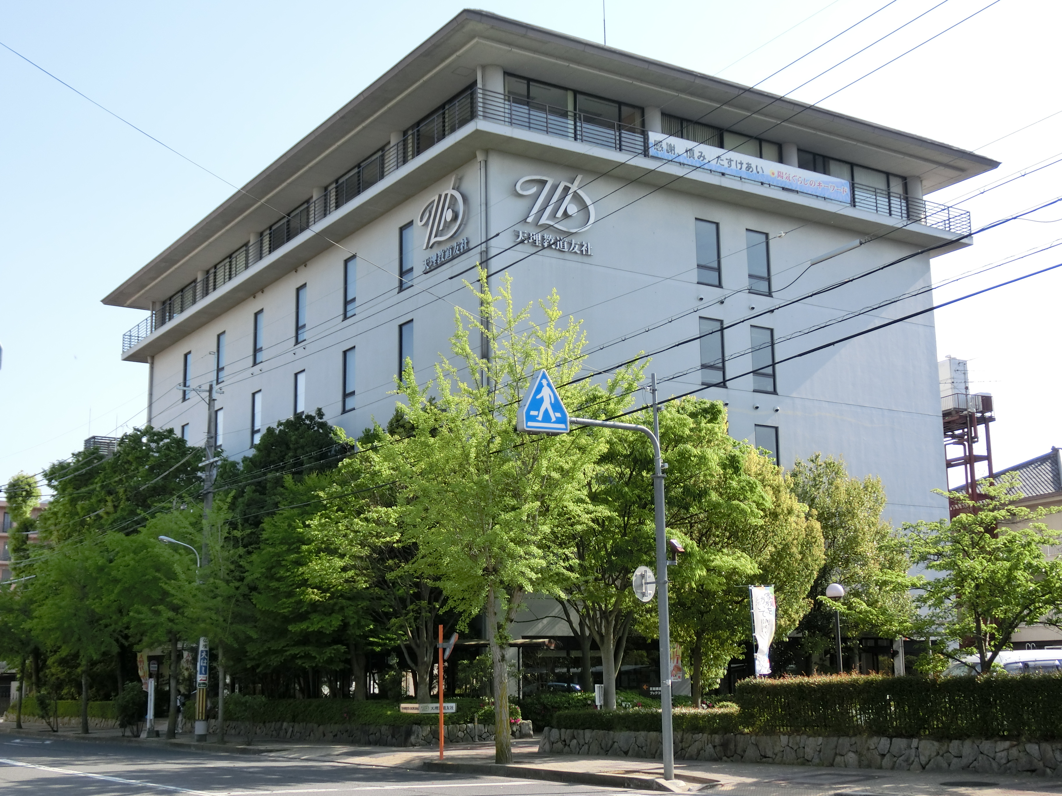 Tenrikyo Doyusha Head Office